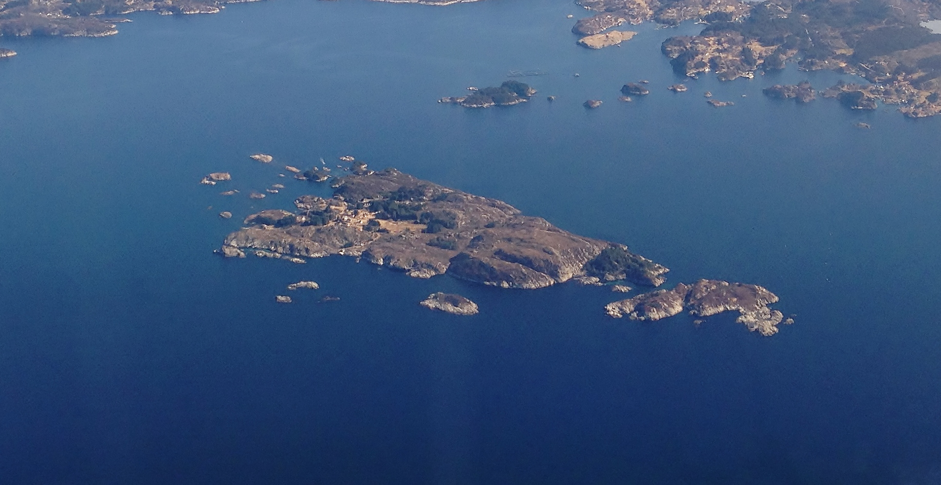 Lundøy in Austevoll